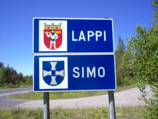 Municipal border sign of Simo, Finland and regional border sign of Lapland